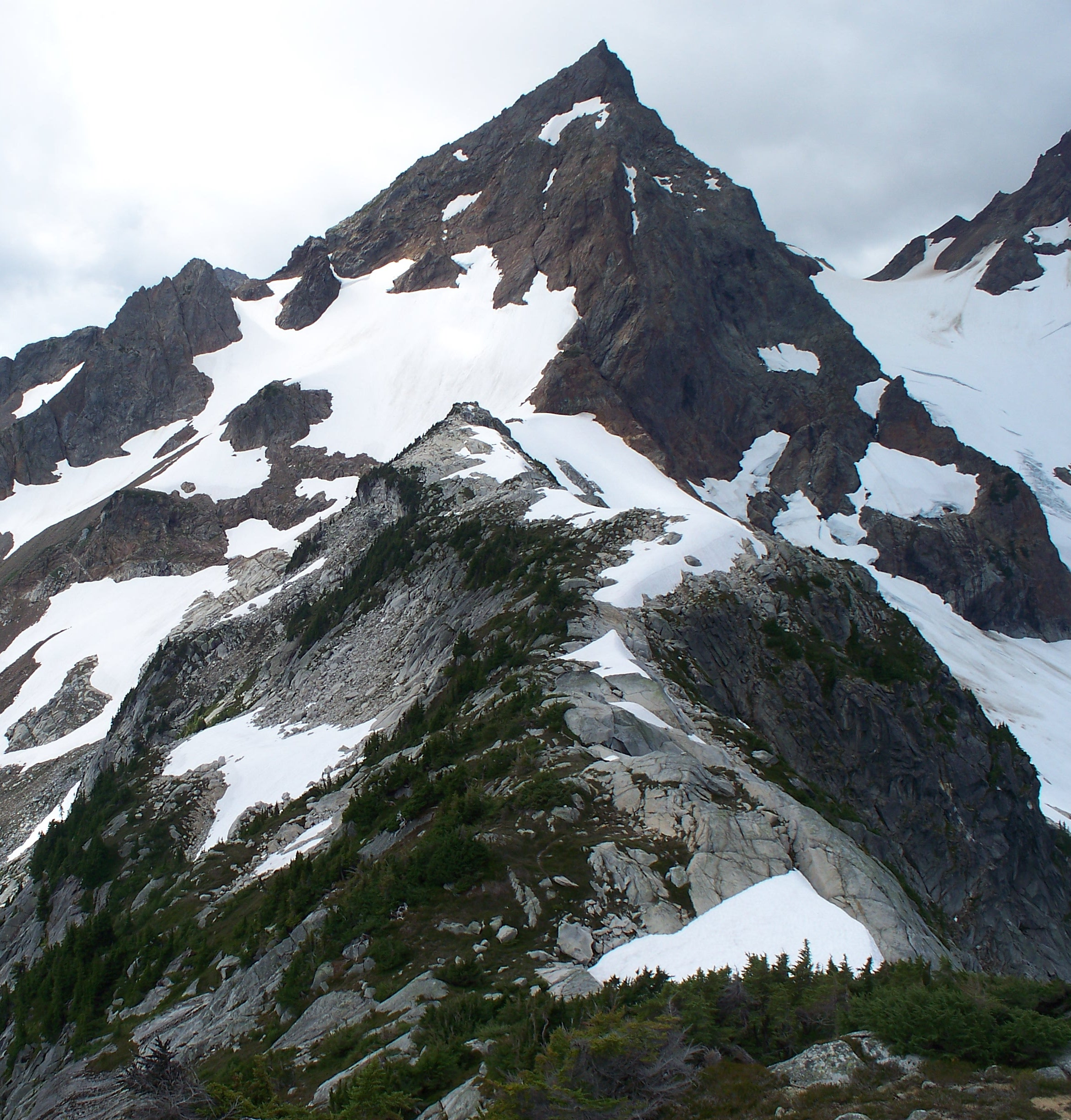 Photo of Foley Peak, near Chilliwack, British Columbia, Canada.